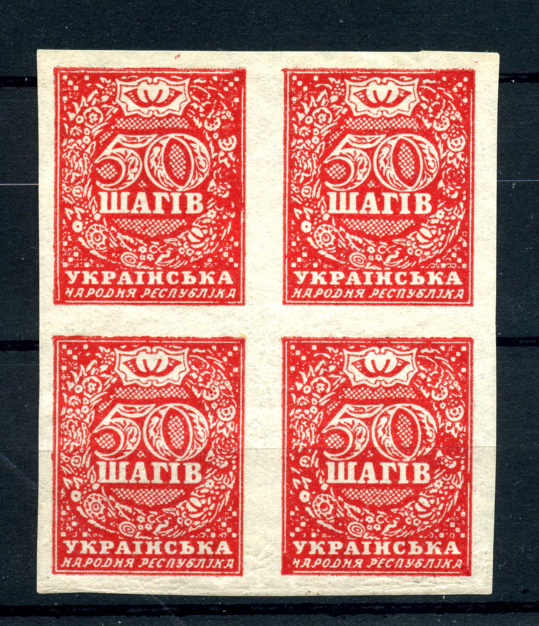 Post stamps of Ukraine